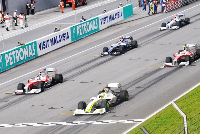 Five lights on, and we're about to go!